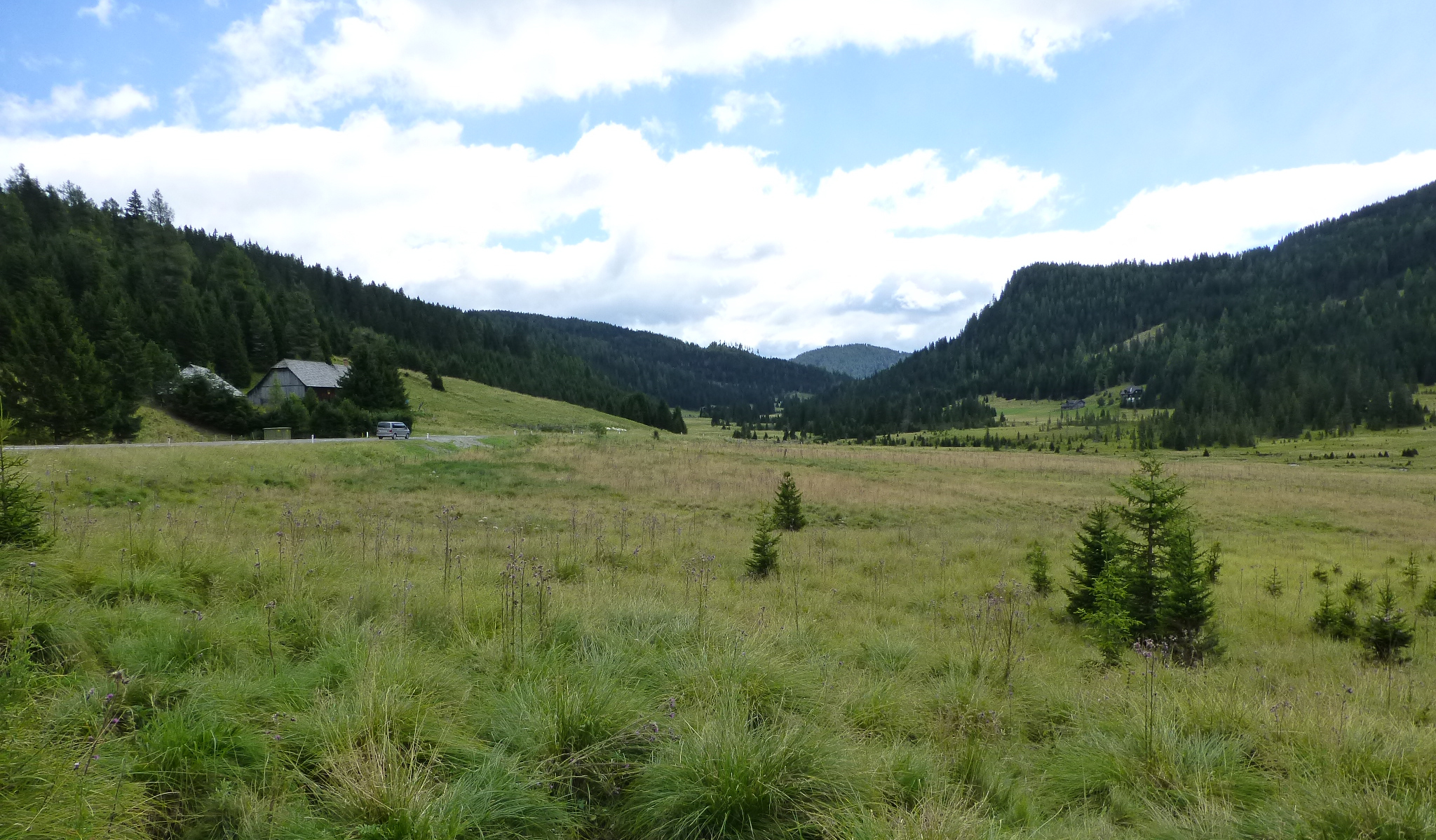 Landscape between Stadl (Styria) and the Flattnitzerhöhe, a 1400 m pass to Carinthia.